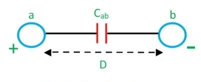 Calculation of capacitance